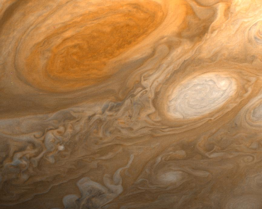 As Voyager 1 flew by Jupiter, it captured this photo of theGreat Red Spot. The Great Red Spot is an anti-cyclonic (high-pressure) storm on Jupiter that can be likened to the worsthurricanes on Earth. An ancient storm, it is so large that three Earths could fit inside it. This photo, and others of Jupiter, allowed scientists to see different colors in cloudsaround the Great Red Spot which imply that the clouds swirlaround the spot (going counter-clockwise) at varying altitudes.The Great Red Spot had been observed from Earth for hundredsof years, yet never before with this clarity and closeness (objects as small as six hundred kilometers can be seen). TheVoyager mission has been managed by NASA's Office of Space Science and the Jet Propulsion Laboratory.